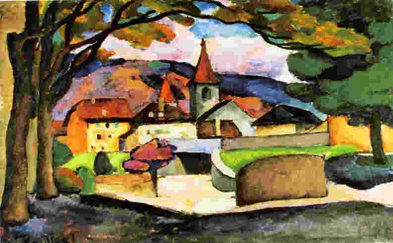 Photograph of Landscape with a Town, 1909. Oil on canvas, by Ilya Mashkov. In the public domain.